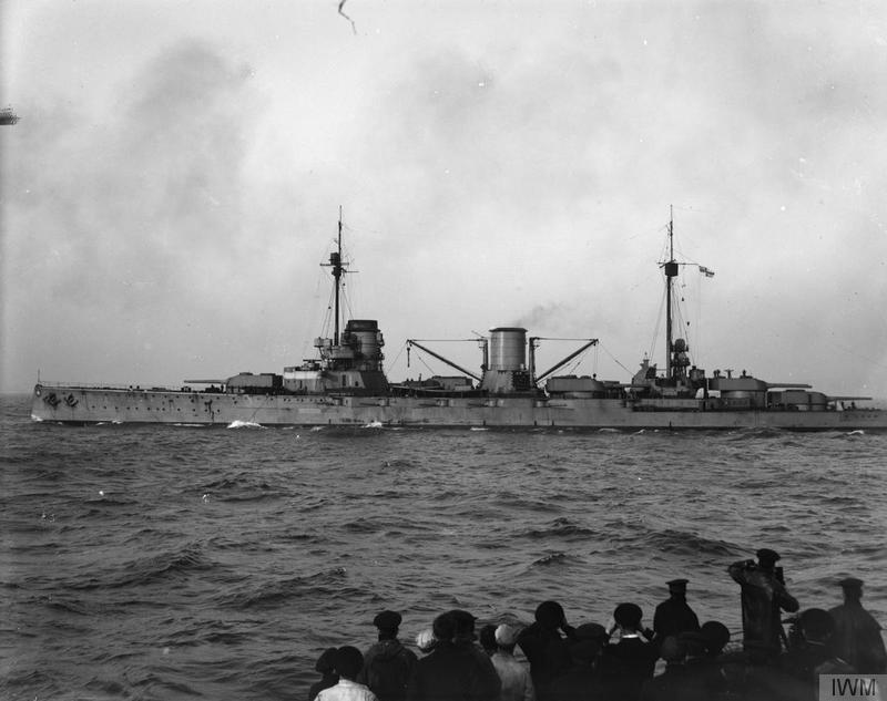 The Surrender of the German High Seas Fleet, November 1918 German battle cruiser SMS MOLTKE.